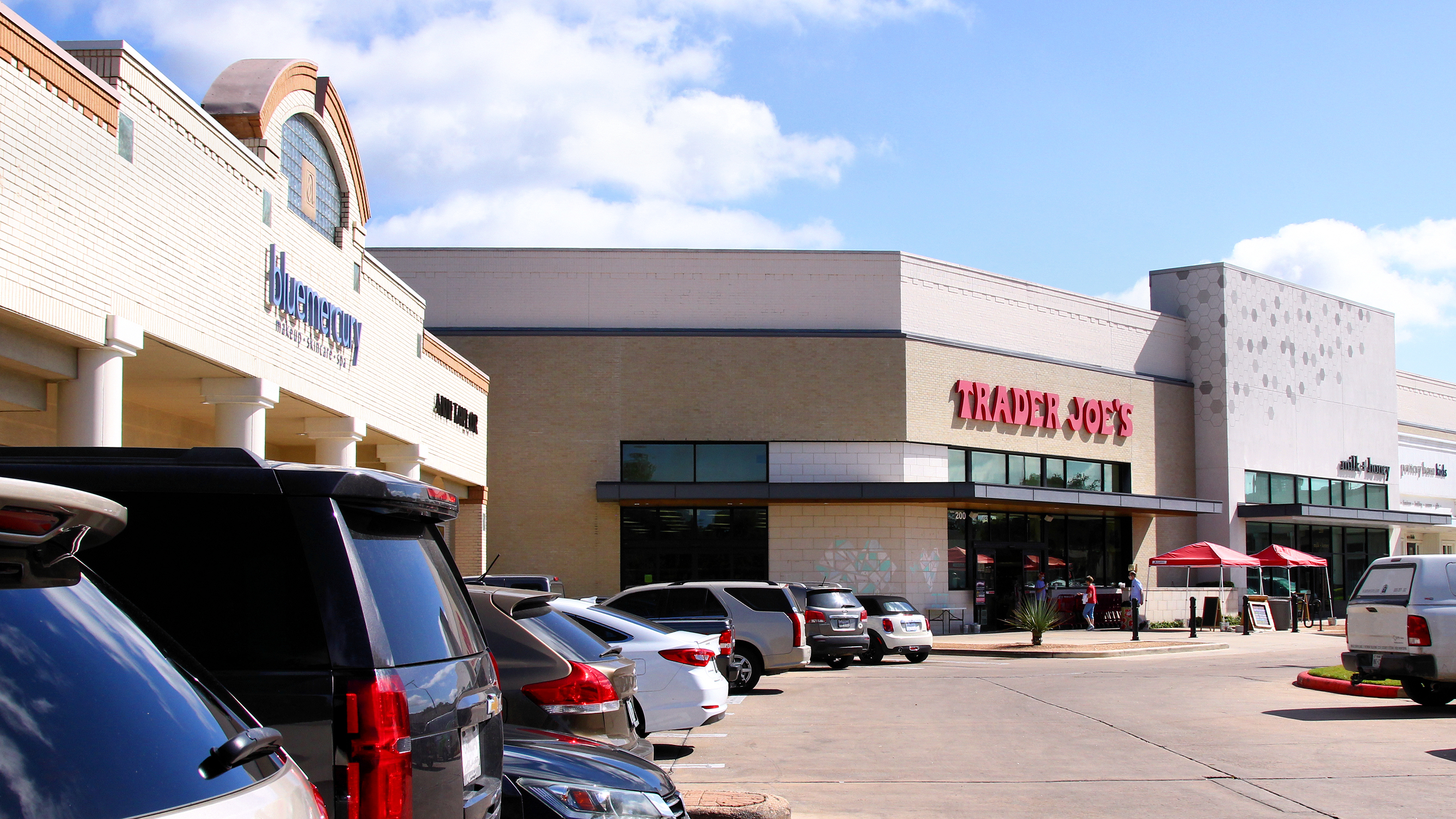 Trader Joe's at Arboretum Market in Austin, Texas, United States.